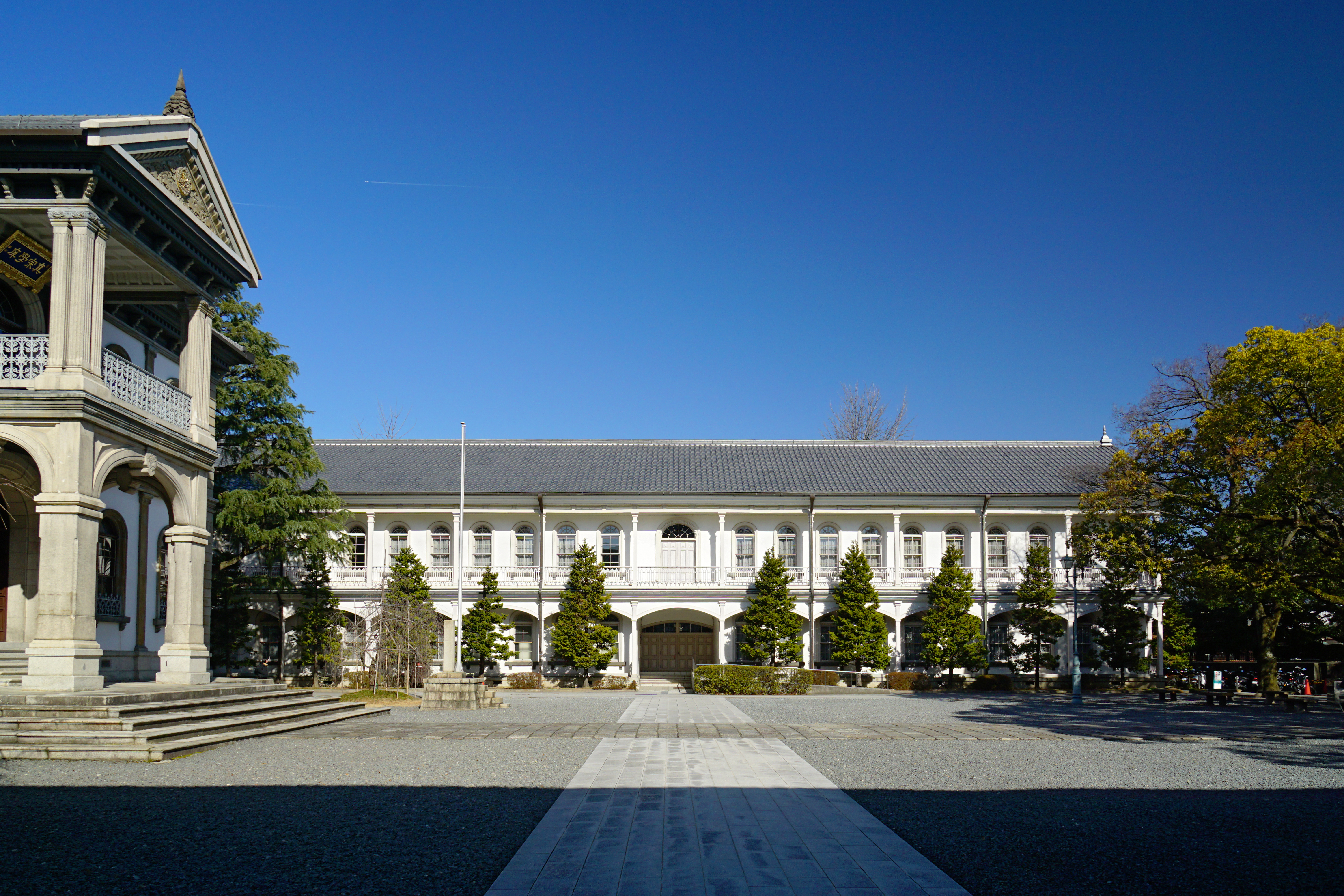 Ryukoku University Omiya Campus in Kyoto, Kyoto prefecture, Japan